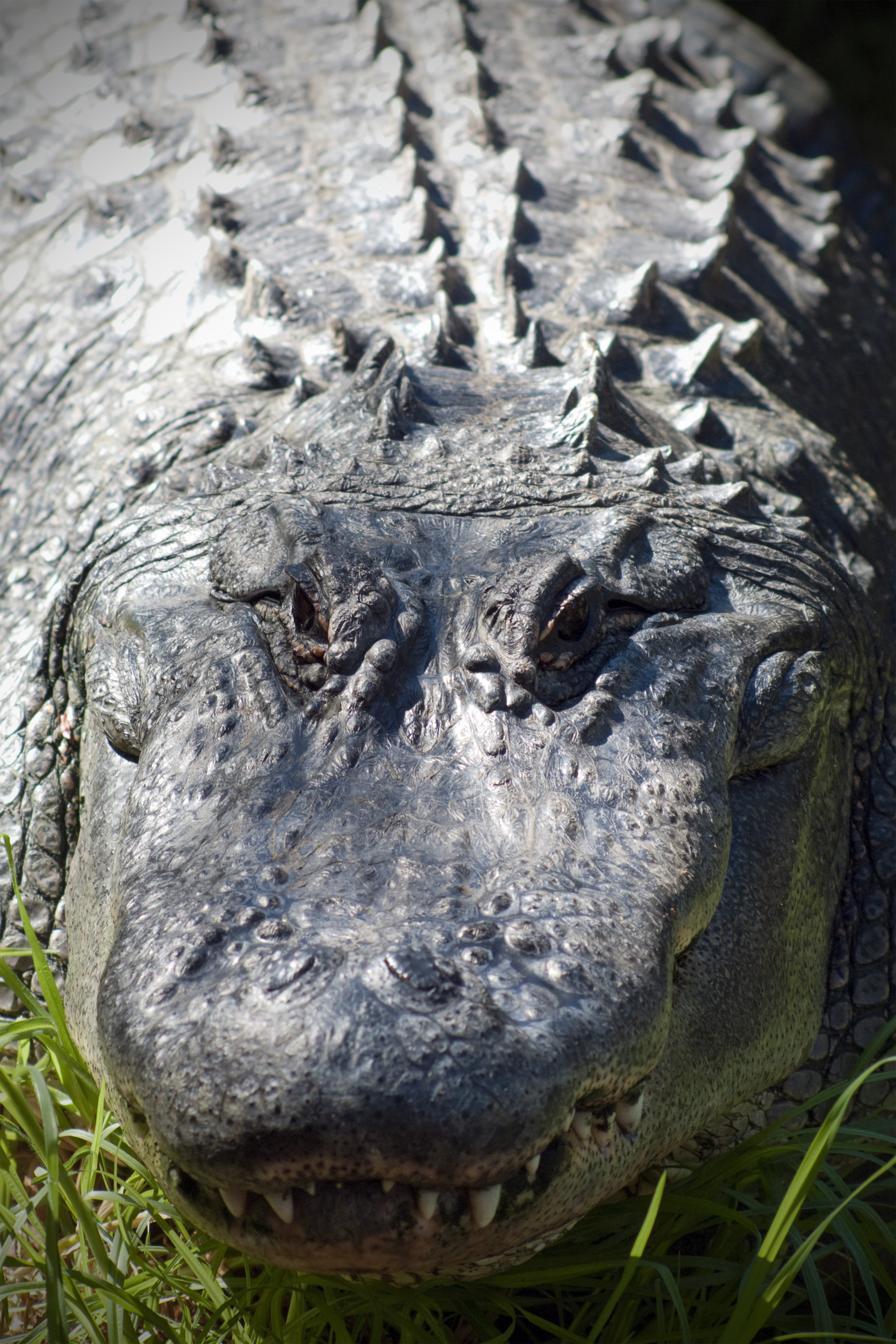 Alligator (possibly Alligator mississippiensis) at the Adelaide Zoo in South Australia.